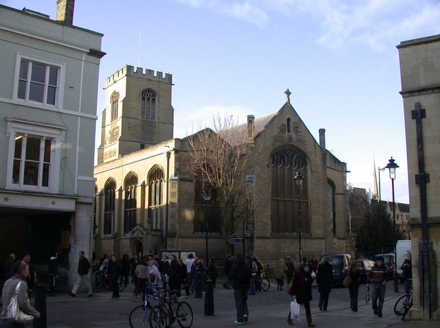 Parish church of St Andrew the Great, St Andrew's Street, Cambridge, England, seen from the east. The name distinguishes it from St Andrew the Less. Its monuments include one to Capt James Cook and his family.